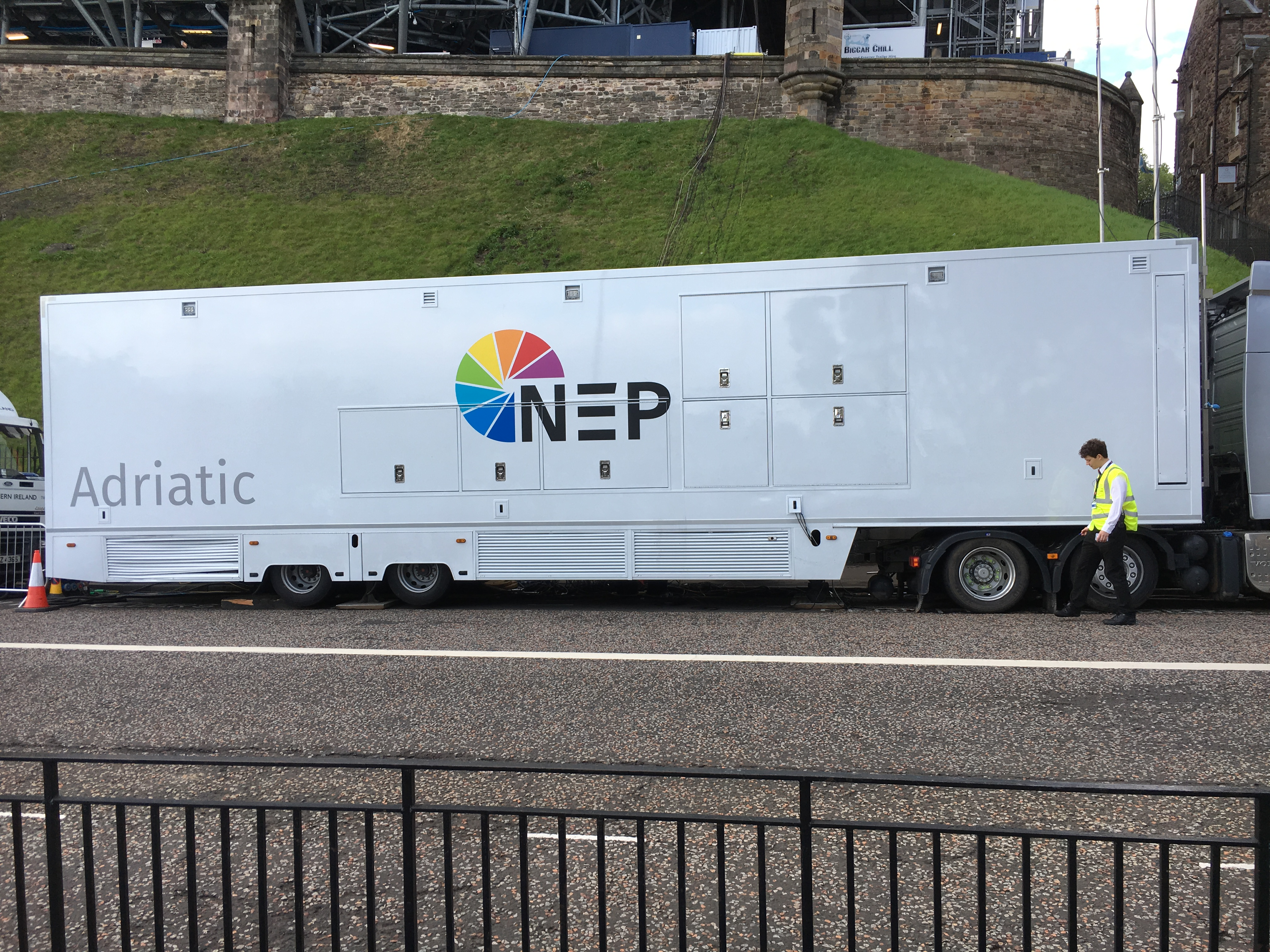 NEP UK Adriatic outside broadcast vehicle at Edinburgh Castle for the 2017 Royal Edinburgh Military Tattoo.